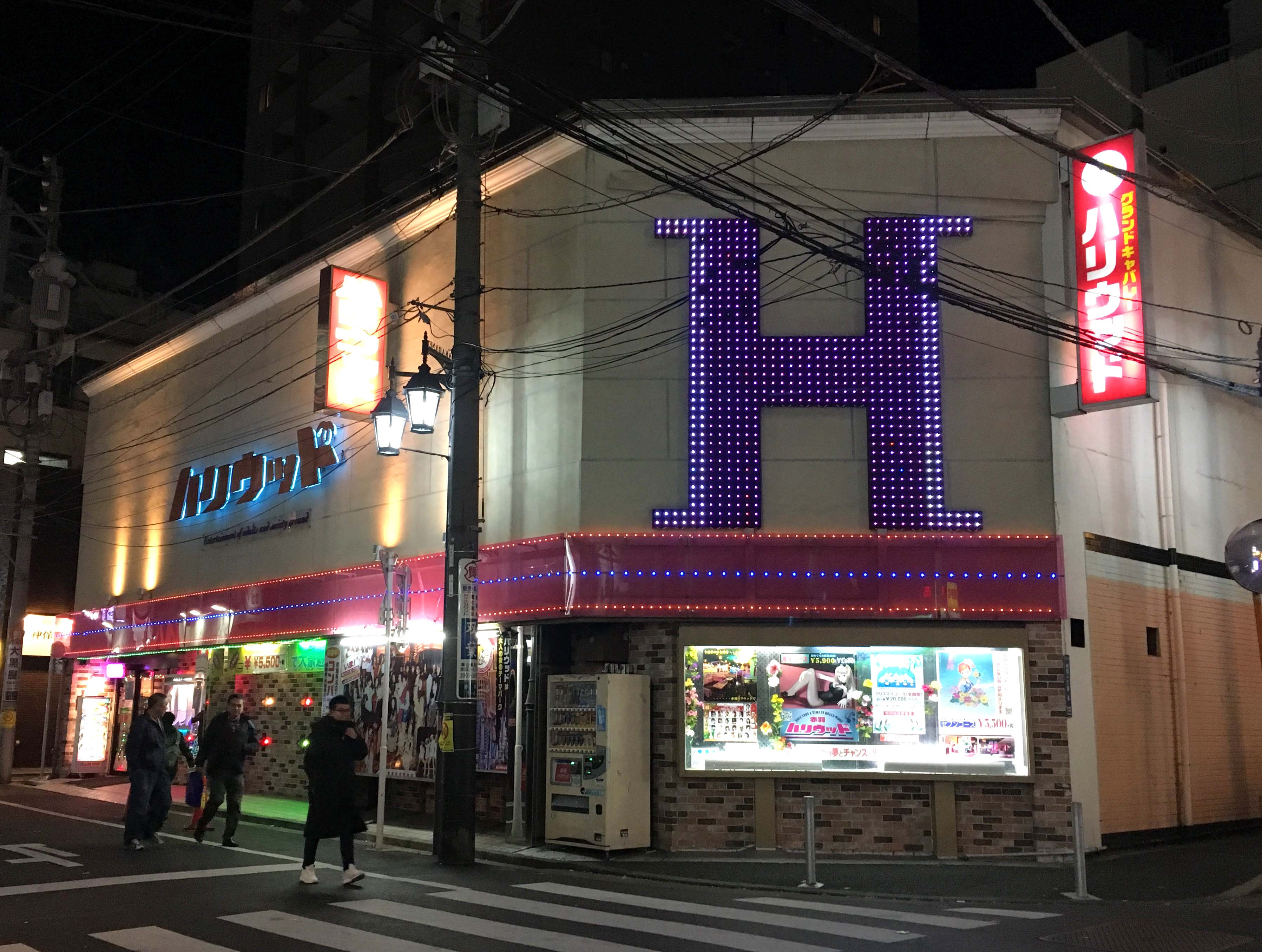 Grand Cabaret HollyWood Akabane branch (Cabaret in Tokyo, Japan)